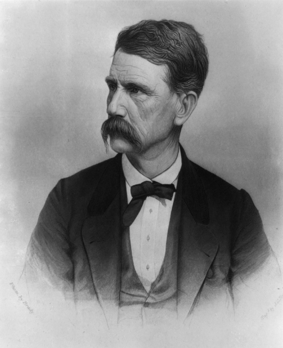 Francis Preston Blair, Jr., U.S. Senator from Missouri